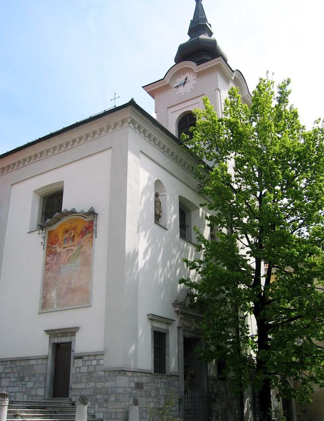 St. Florian church, Ljubljana photo:Ziga 14:13, 1 May 2006 (UTC)